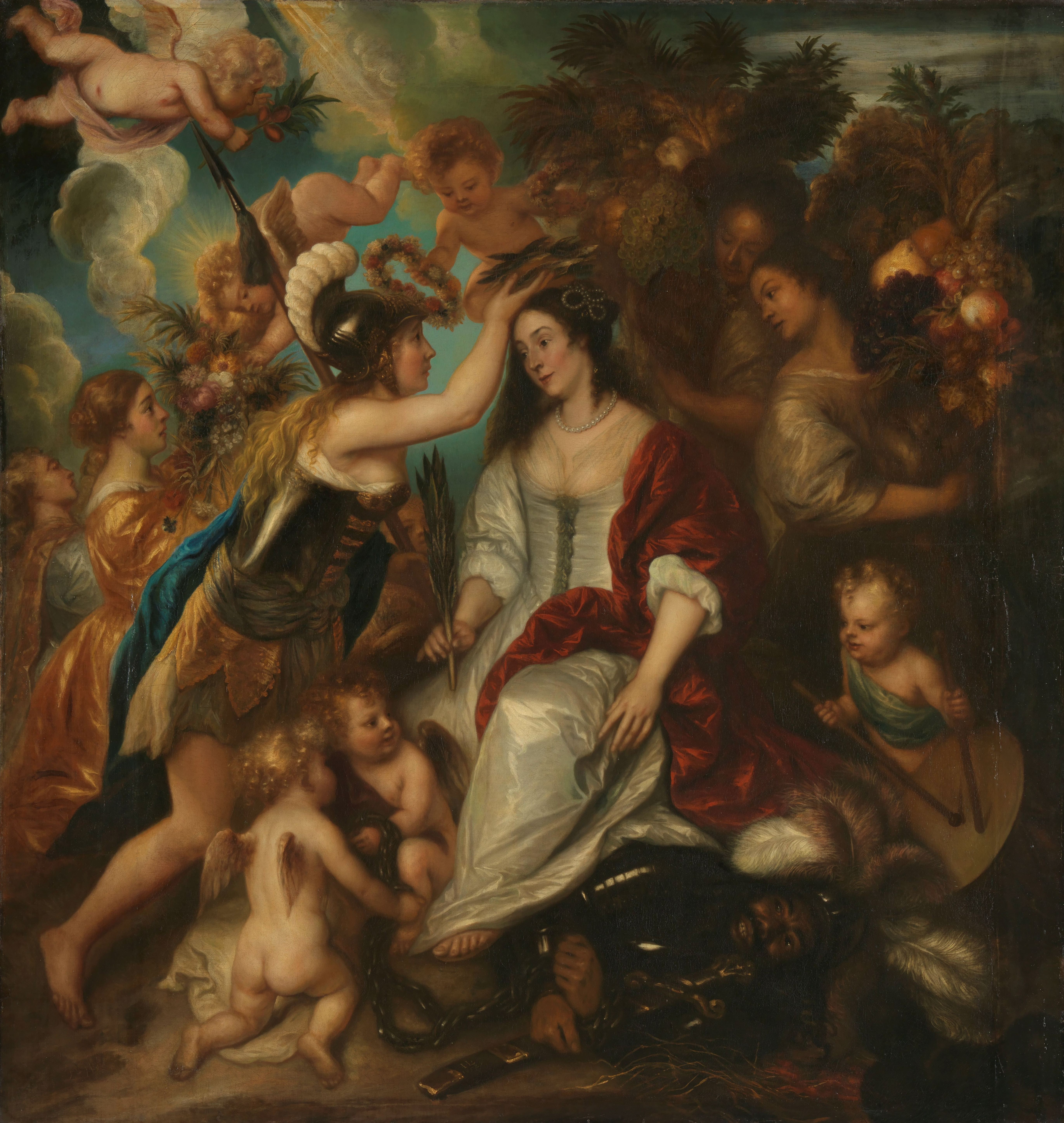 Allegory of Peace. The sitting female allegory of Peace is being crowned by a woman in armor, while trampling the allegory of War under her feet. To the right women are carrying baskets or horns with fruit and a putto is beating the drum. Bottom left two putti are chaning War. To the left women are carrying flowers accompanied by two putti.